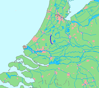 Location of a waterway (river/canal) in the Netherlends